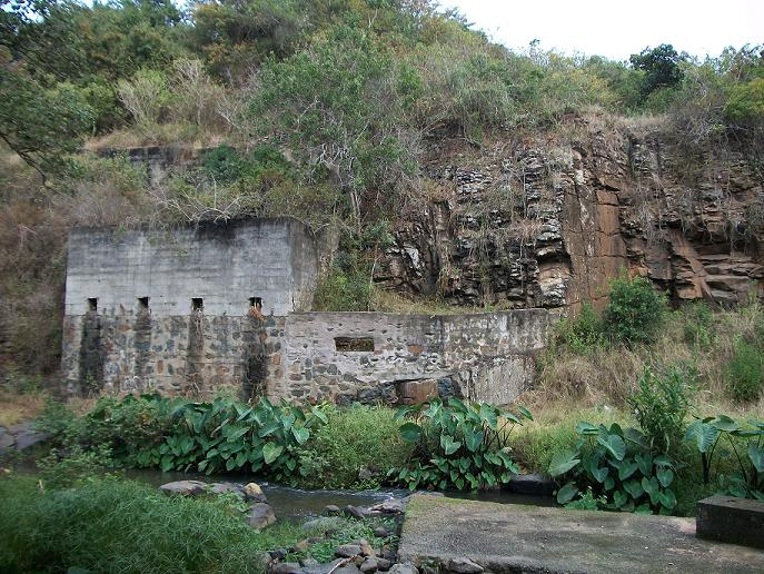 Part of the remains of the old quarry at Ilanda Wilds